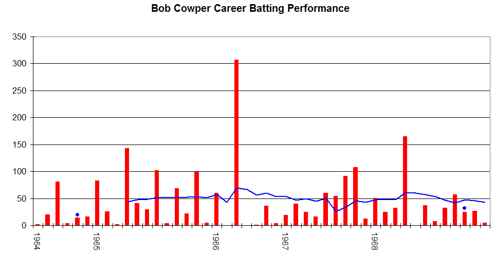 This graph details the Test Match performance of Bob Cowper. It was created by Raven4x4x. The red bars indicate the player's test match innings, while the blue line shows the average of the ten most recent innings at that point. Note that this average cannot be calculated for the first nine innings. The blue dots indicate innings in which Cowper finished not-out. This graph was generated with Microsoft Excel 2002, using data from Cricinfo and .au.